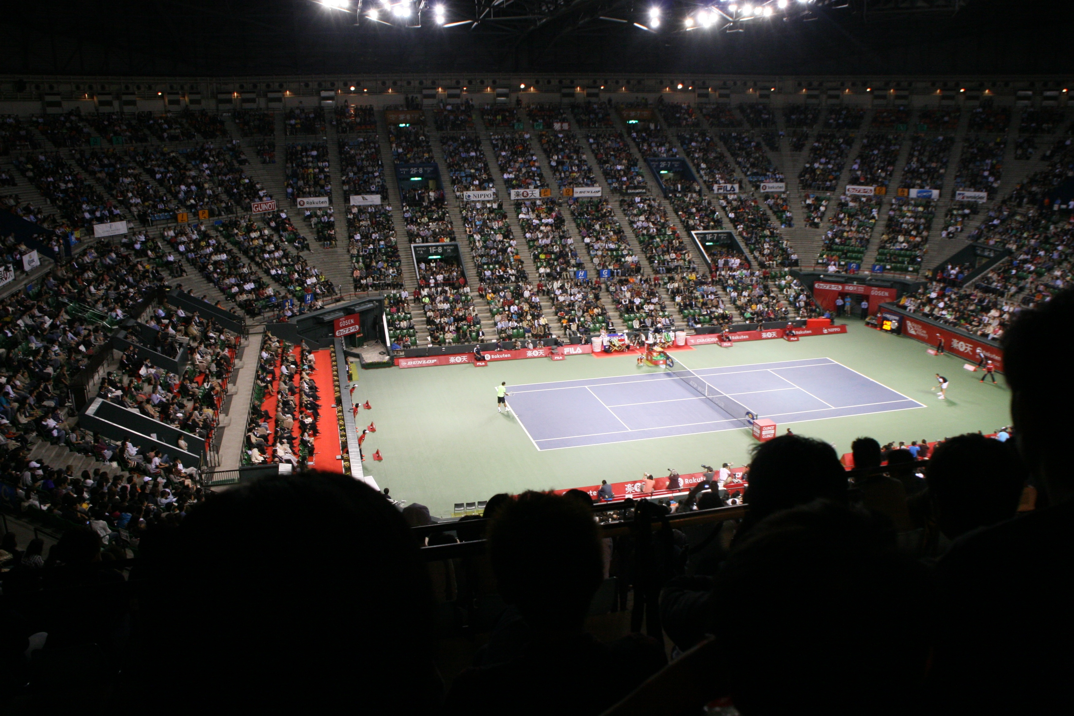 Centre Court at the Ariake Coliseum during a Nadal match